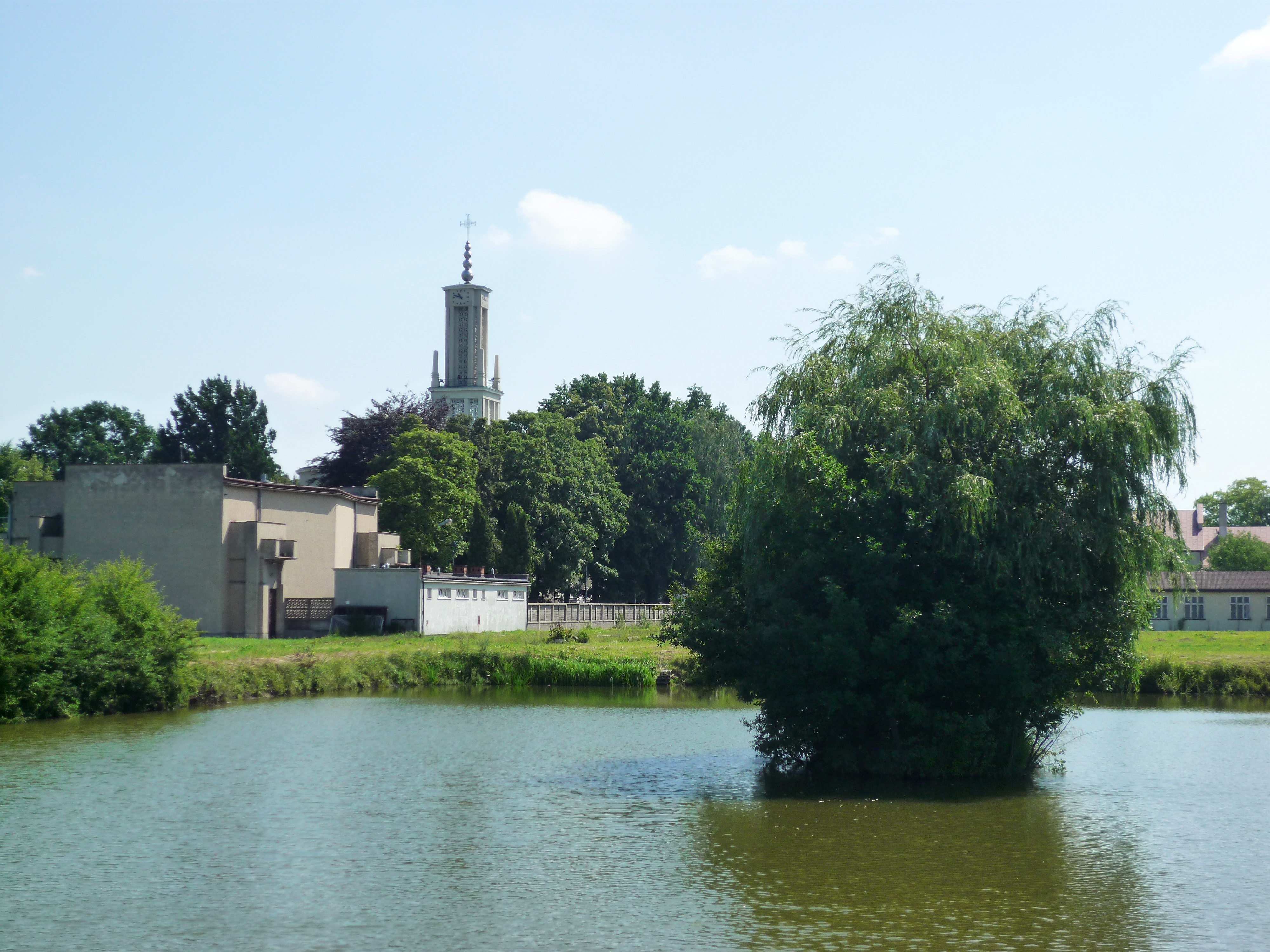 The clock tower of the basilica of Niepokalanów and the monastery's lake